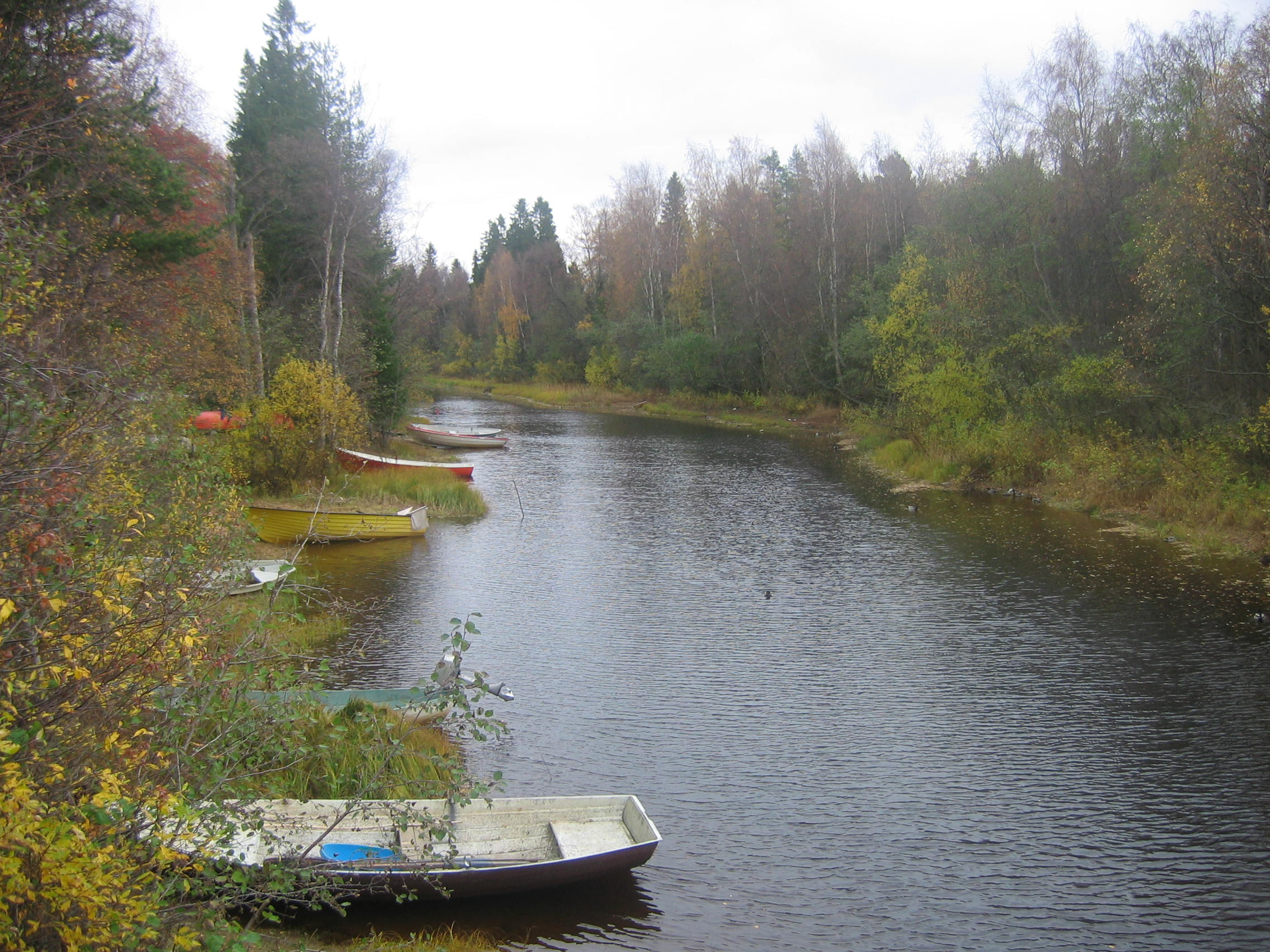 The Mustasalmi canal in Hietasaari, Oulu, Finland.